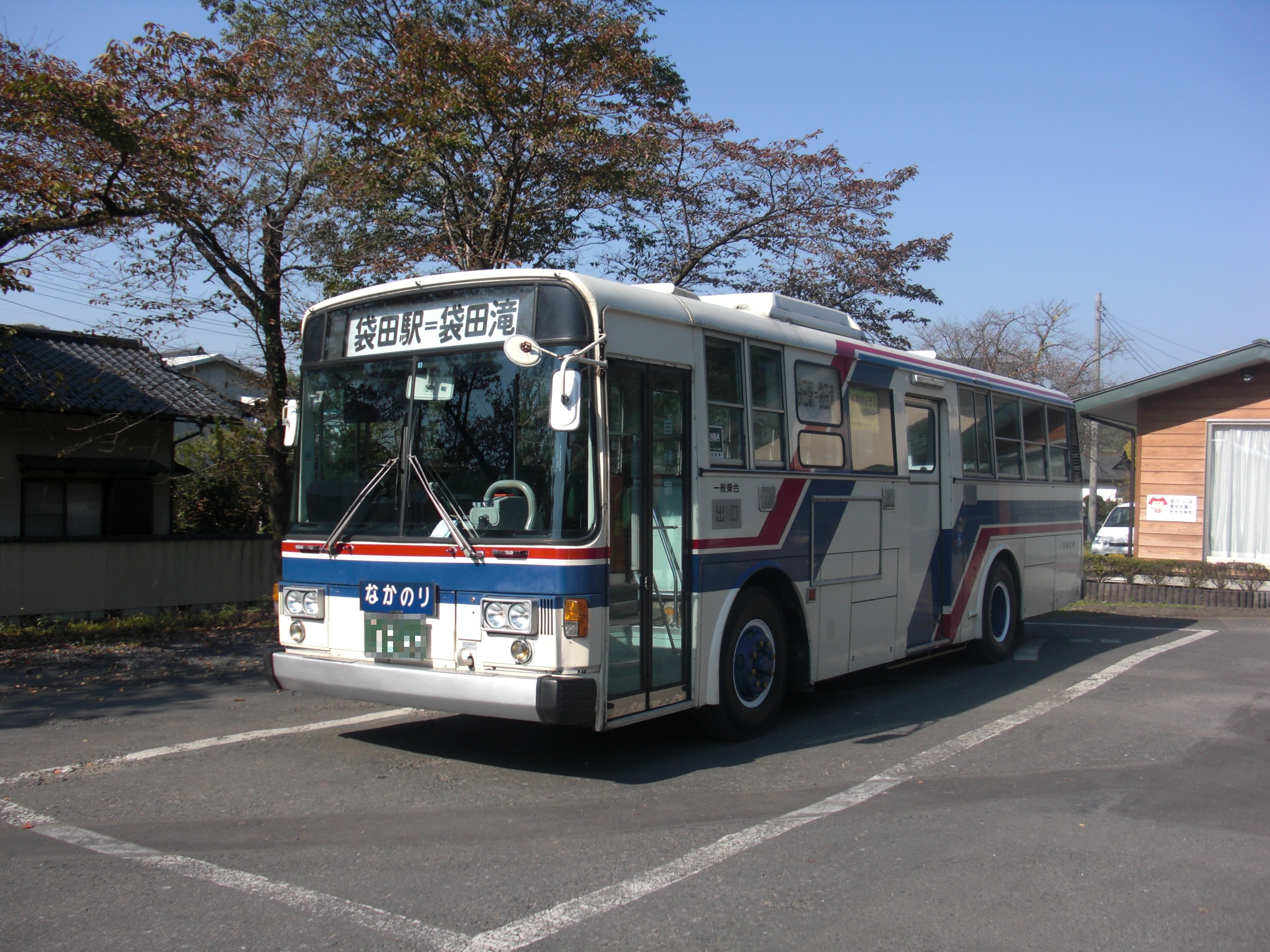 This is a transit bus which belongs to Ibaraki Kotsu for Fukuroda Falls.